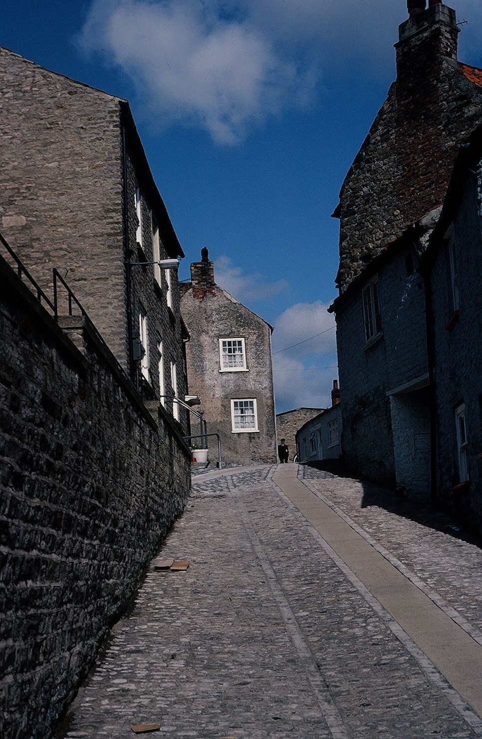 Ally in Richmond, North Yorkshire